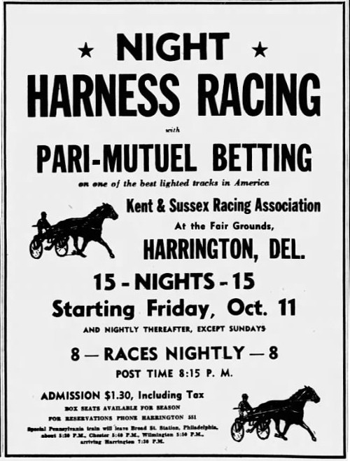 Newspaper advertisement for the first racing session with parimutuel wagering conducted at Kent and Sussex Raceway (now Harrington Raceway & Casino) in Harrington, Delaware